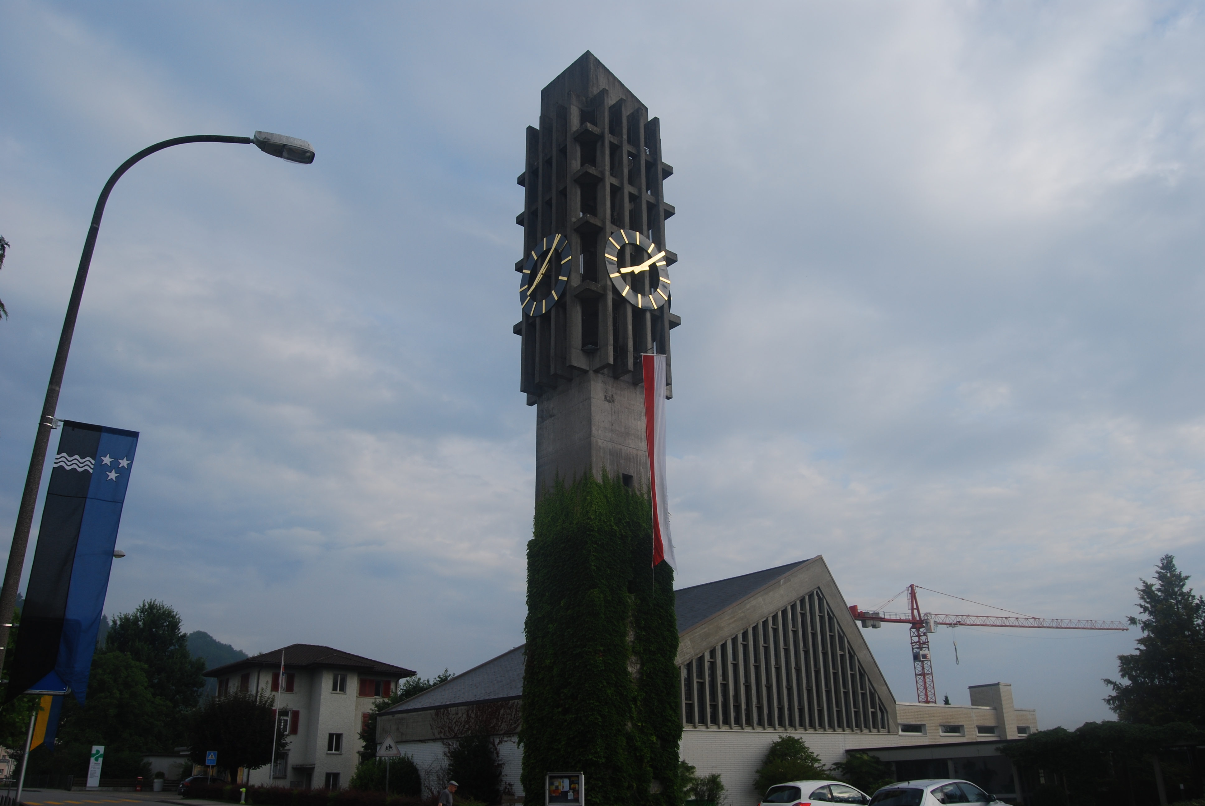 Protestant church of Strengelbach, canton of Aargau, Switzerland